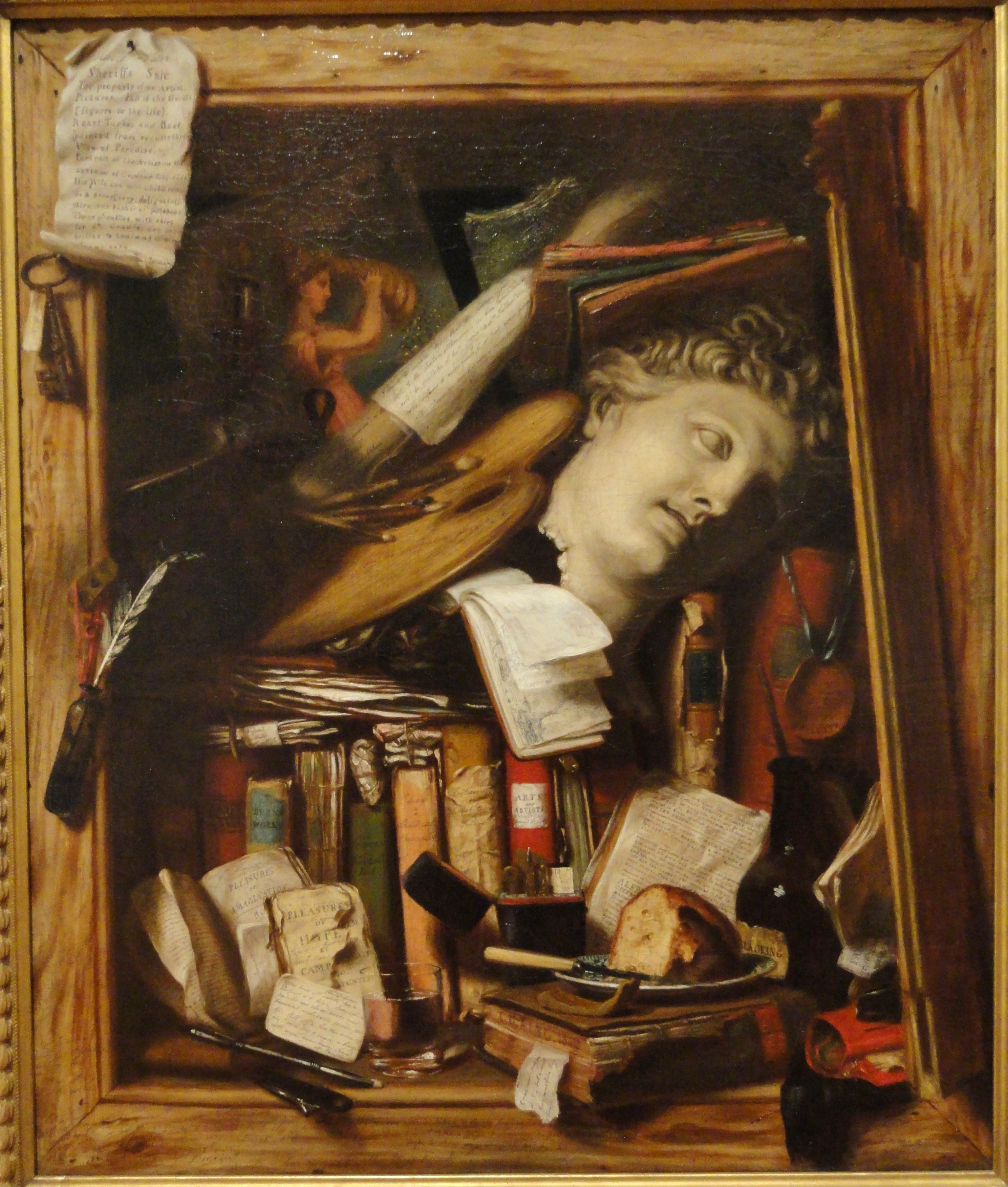 The Vanity of the Artist's Dream The museum permitted photography of this artwork without restriction. This artwork is in the public domain because the artist died more than 70 years ago.